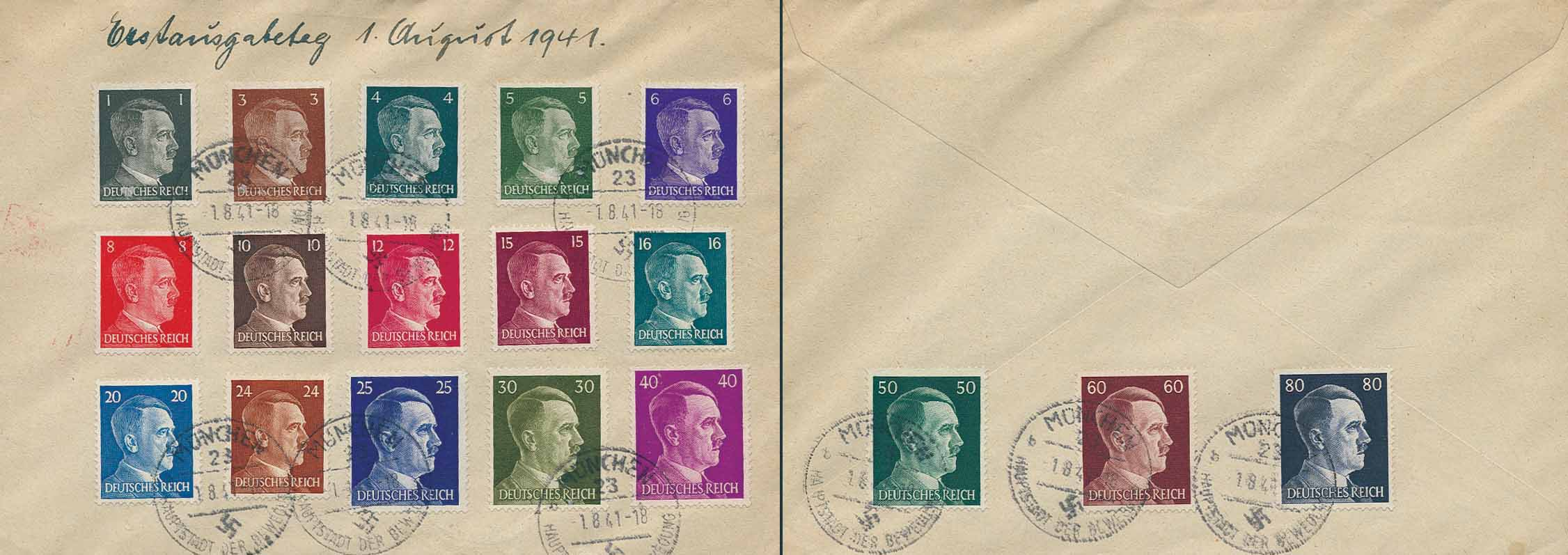 First Day Cover from 1st August 1941